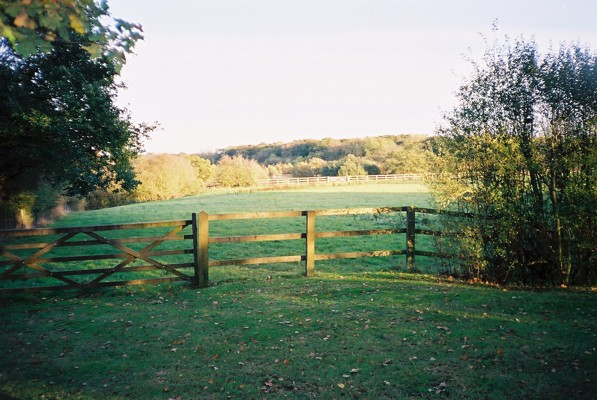 Nuptown countryside. Looking across to Steven's Copse, from Hogoak Lane (byway).